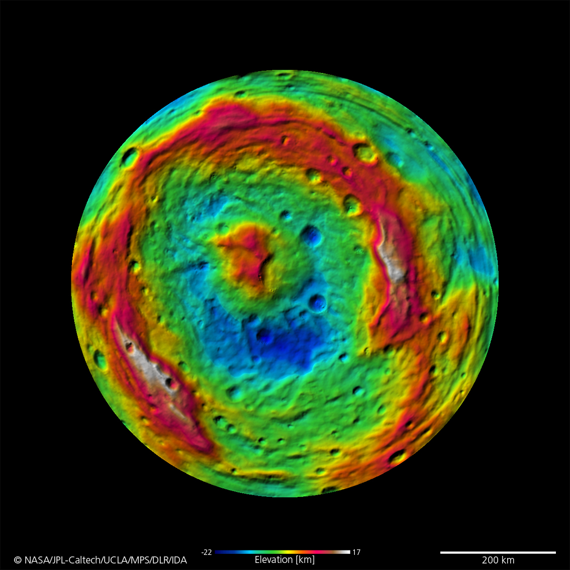 A False-Color Topography of Vesta's South Pole September 16, 2011 - PASADENA, Calif. -- This false-color map of the giant asteroid Vesta was created from stereo images obtained by the framing camera aboard NASA’s Dawn spacecraft. The image shows the elevation of surface structures with a horizontal resolution of about 750 meters per pixel. The terrain model of Vesta's southern hemisphere shows a big circular structure with a diameter of about 300 miles (500 kilometers), its rim rising above the interior of the structure for more than 9 miles (15 kilometers.) From low-resolution images of the Hubble Space Telescope it was known that a big depression existed at Vesta’s south pole, suggestive of being a big impact basin. Scientists on the Dawn team are still investigating the processes that formed this structure.